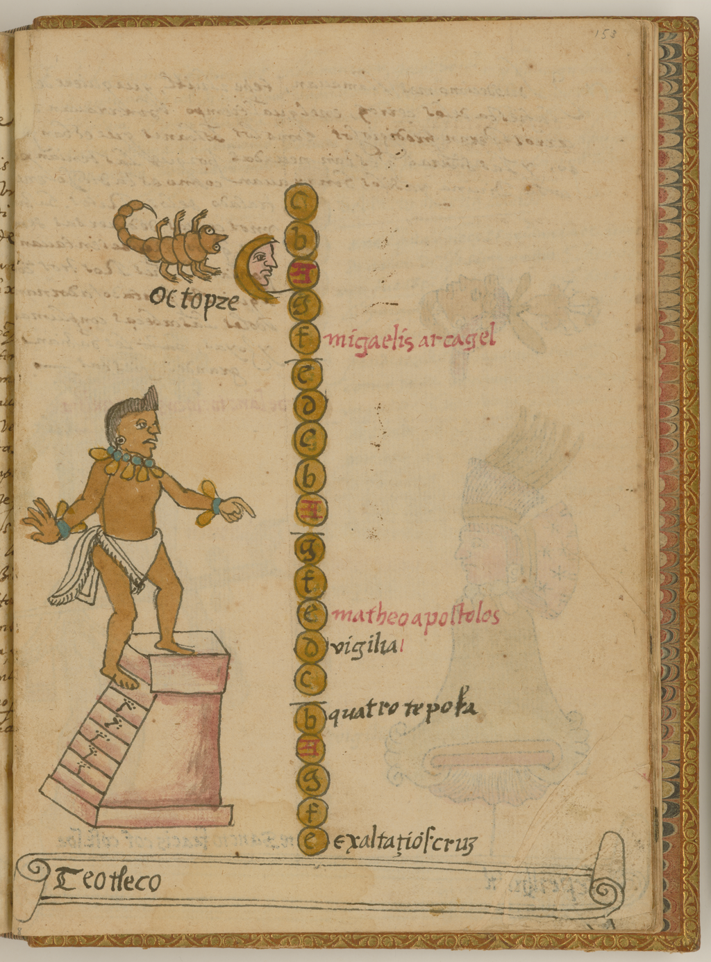 The Tovar Codex, attributed to the 16th-century Mexican Jesuit Juan de Tovar, contains detailed information about the rites and ceremonies of the Aztecs (also known as Mexica). The codex is illustrated with 51 full-page paintings in watercolor. Strongly influenced by pre-contact pictographic manuscripts, the paintings are of exceptional artistic quality. The manuscript is divided into three sections. The first section is a history of the travels of the Aztecs prior to the arrival of the Spanish. The second section is an illustrated history of the Aztecs. The third section contains the Tovar calendar, which records a continuous Aztec calendar with months, weeks, days, dominical letters, and church festivals of a Christian 365-day year. This illustration, from the third section, depicts a boy ascending a pyramid, wearing a blue necklace with gold pendants and an elaborate headdress. His footprints can be seen on the steps. The text describes in great detail the festival honoring Huitzilopochtli, which culminates in the appearance of footprints of a child being seen leading up to an offering of food. Above the boy's head is a scorpion. This month, identified as October with the astrological symbol of Scorpio, is called Teotleco or Pachtontli (Return of the Gods). The month was dedicated to Huitzilopochtli, the god of the sun and war, or Tezcatlipoca (Smoking Mirror), the god of the night sky and memory. The hairstyle of the boy recalls the crowns of the nobility. Astrology; Aztec calendar; Aztec gods; Aztecs; Calendars; Codex; Indians of Mexico; Indigenous peoples; Mesoamerica; Tovar Codex